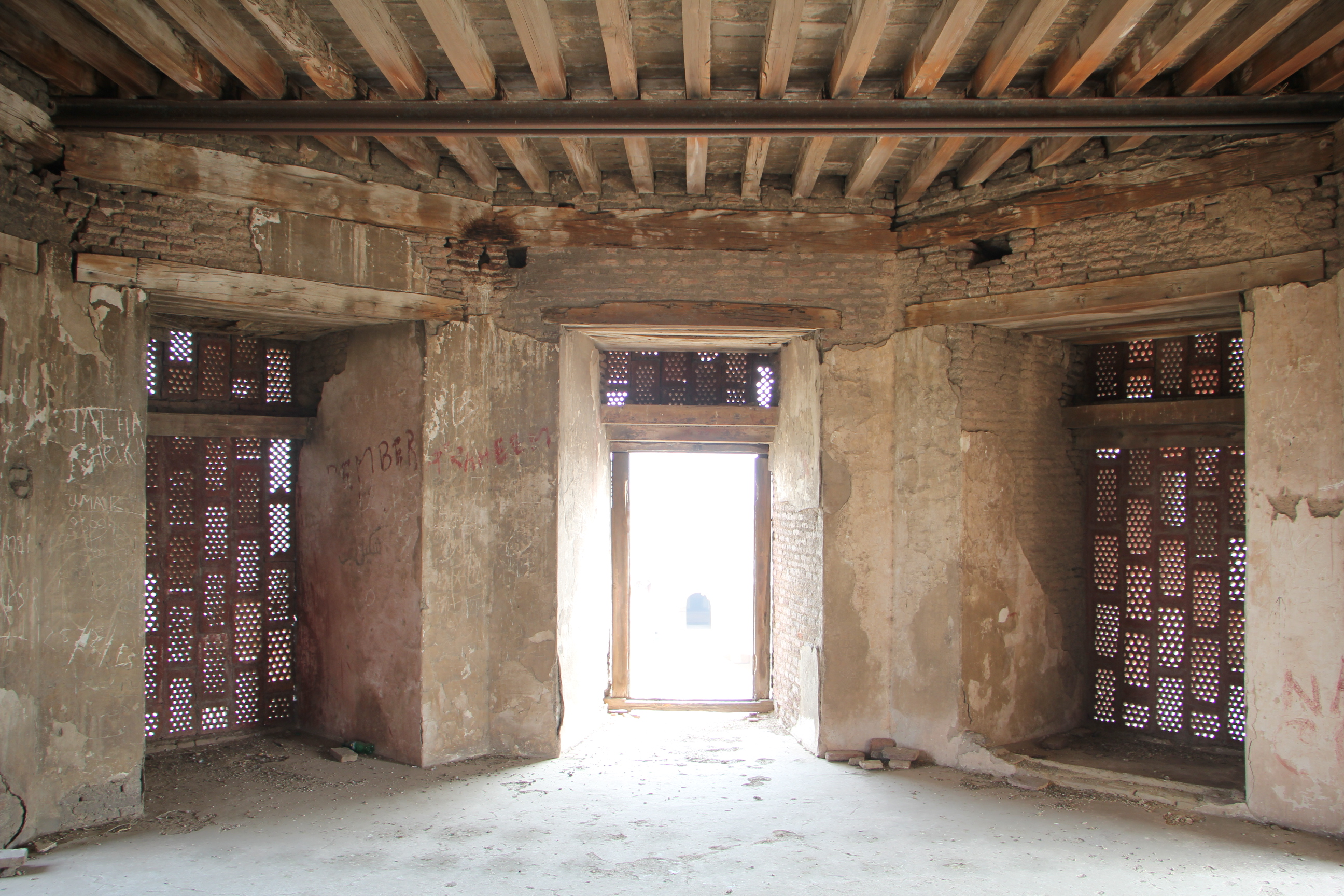 Kala Burj in Lahore Fort